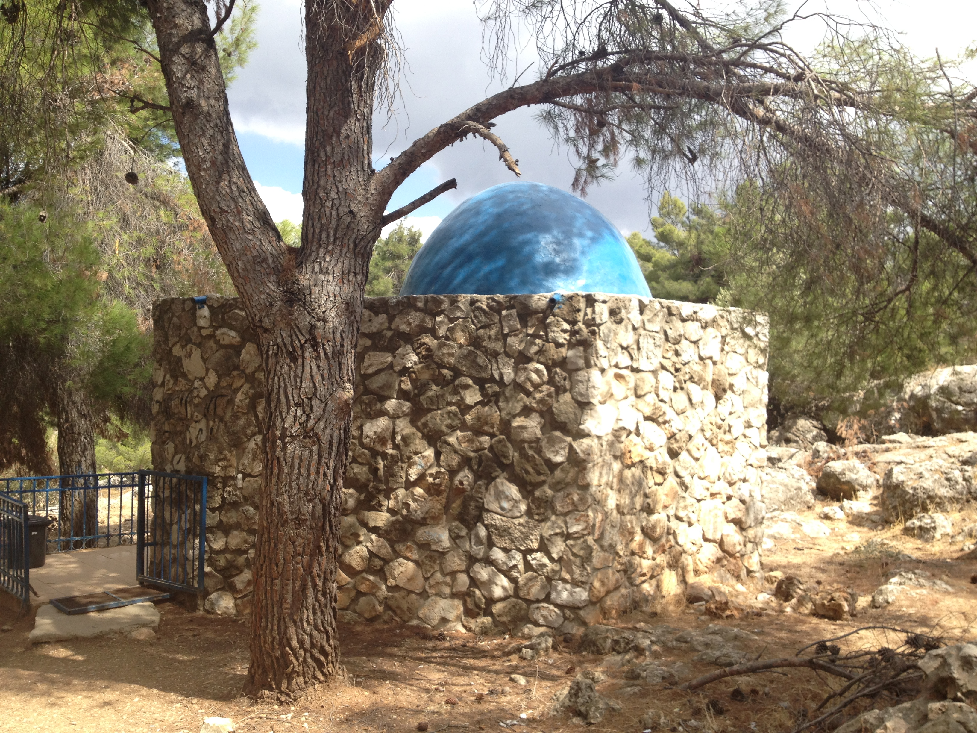 Rabbi Chutzpis Hameturgeman